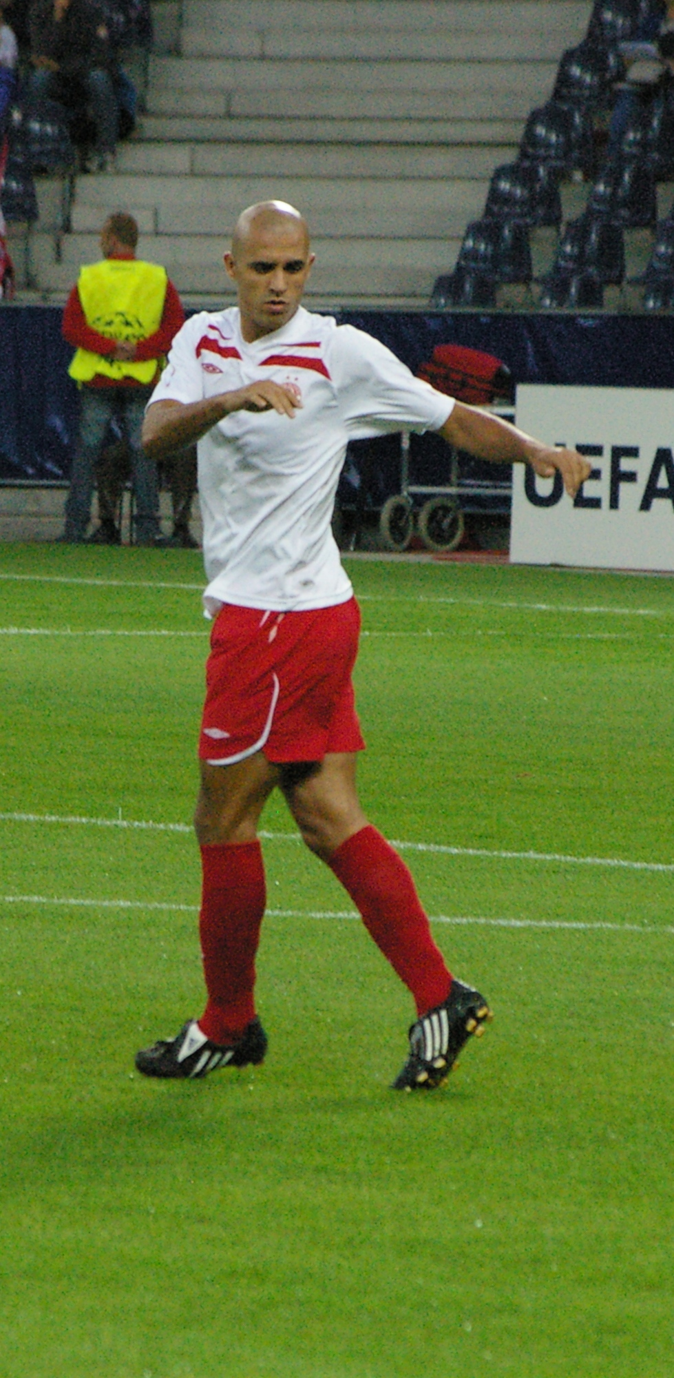 Douglas da Silva